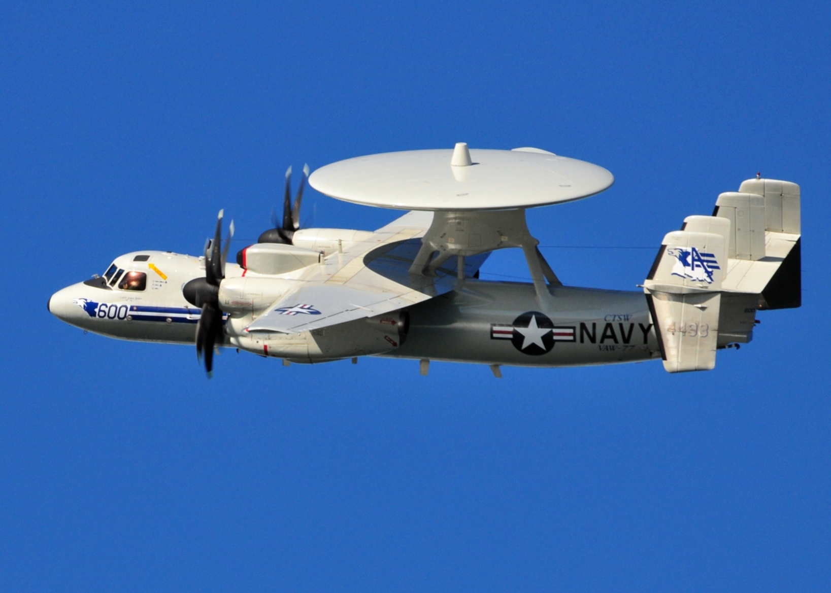 A U.S. Navy Reserve Northrop Grumman E-2C Hawkeye (BuNo 164493) from Airborne Early Warning Squadron 77 (VAW-77) Night Wolves flies over San Diego Bay during the Centennial of Naval Aviation Open House and Parade of Flight at Naval Air Station North Island. The U.S. Navy was observing the Centennial of Naval Aviation with a series of nationwide events celebrating 100 years of heritage, progress and achievement in naval aviation.